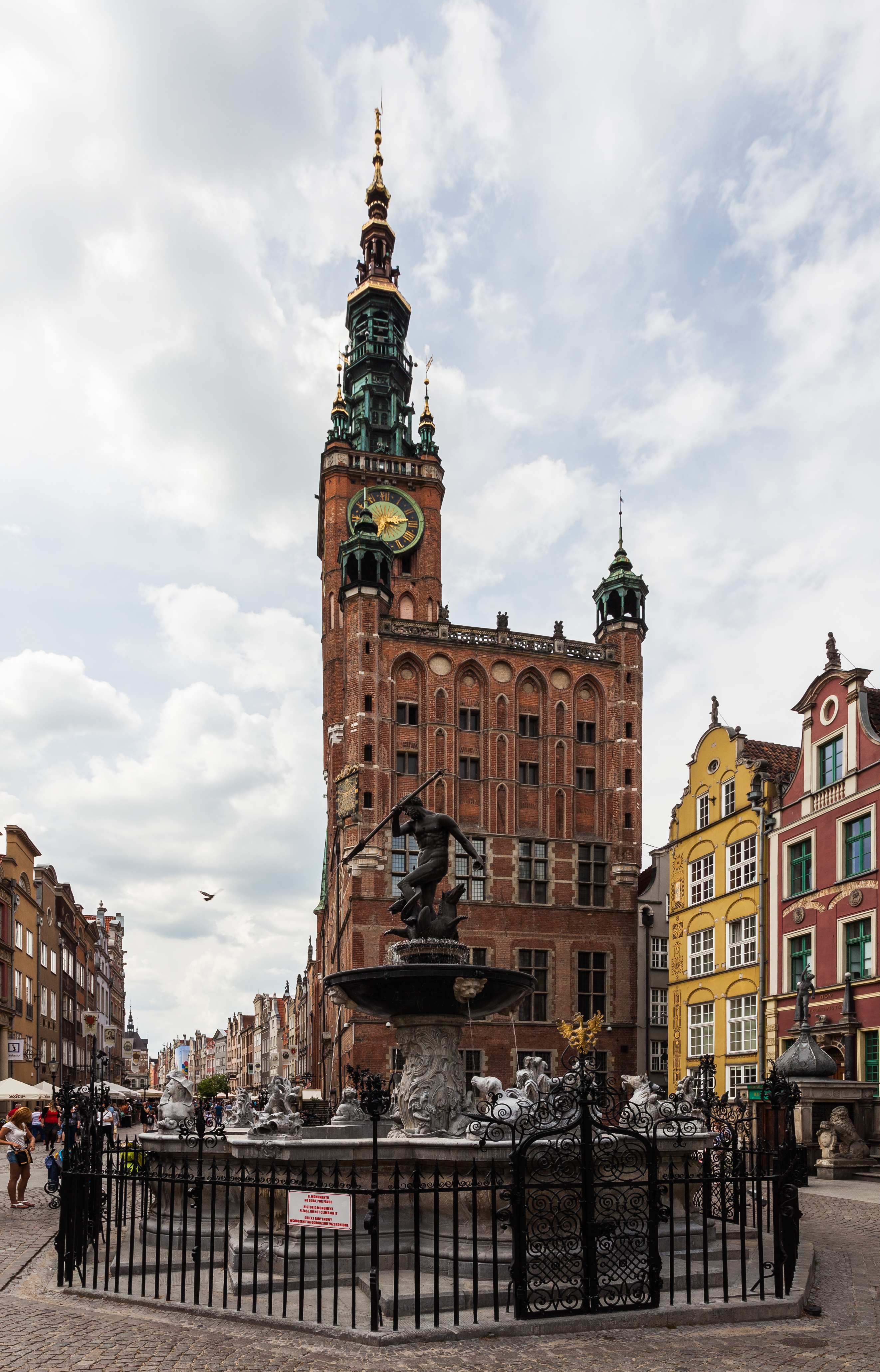 Main Town Hall, Gdansk, Poland